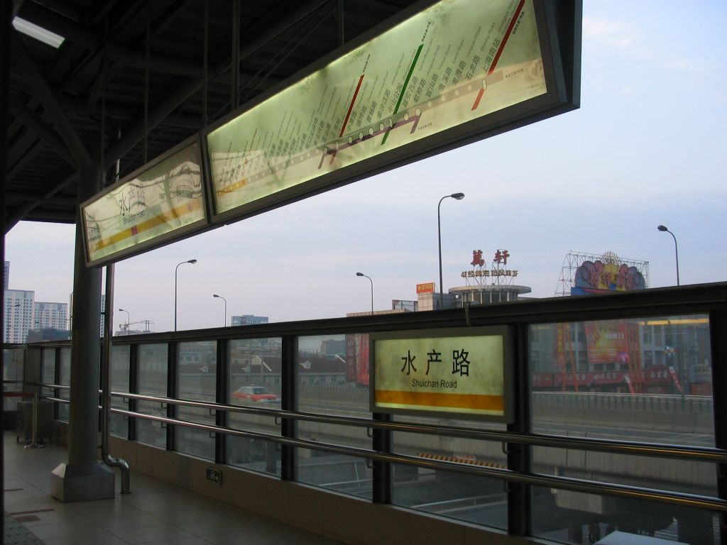 水產路站-3號線月台 Line 3 Platform of Shuichan Road Station